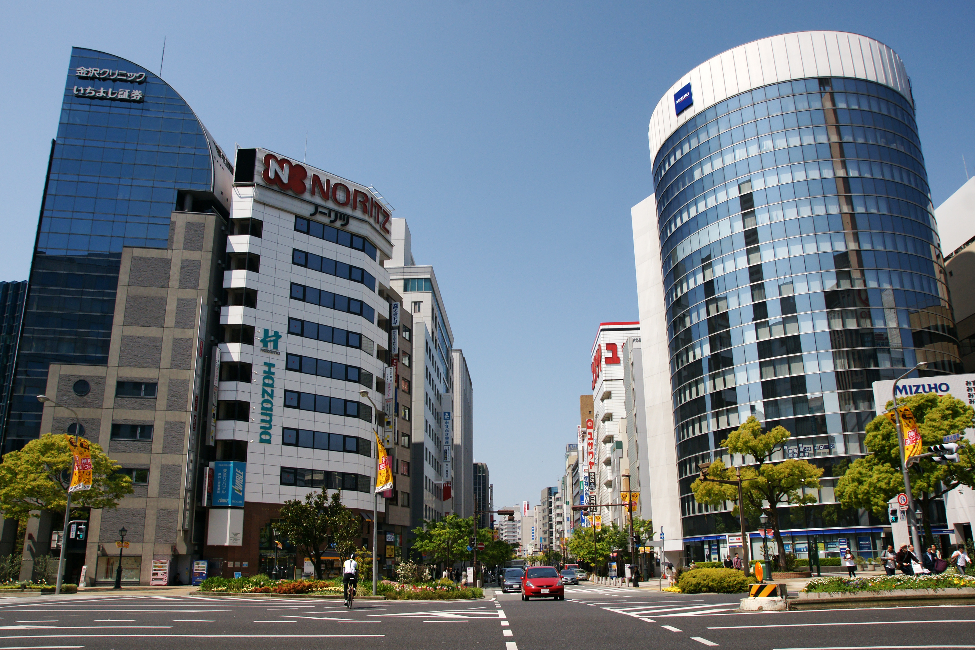 Sannomiya, Kobe, Hyogo prefecture, Japan